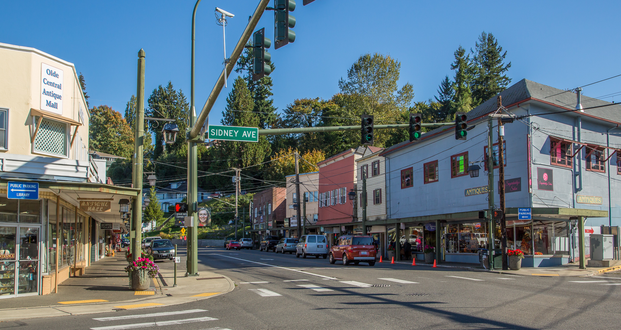 Bay St., Port Orchard, Washington